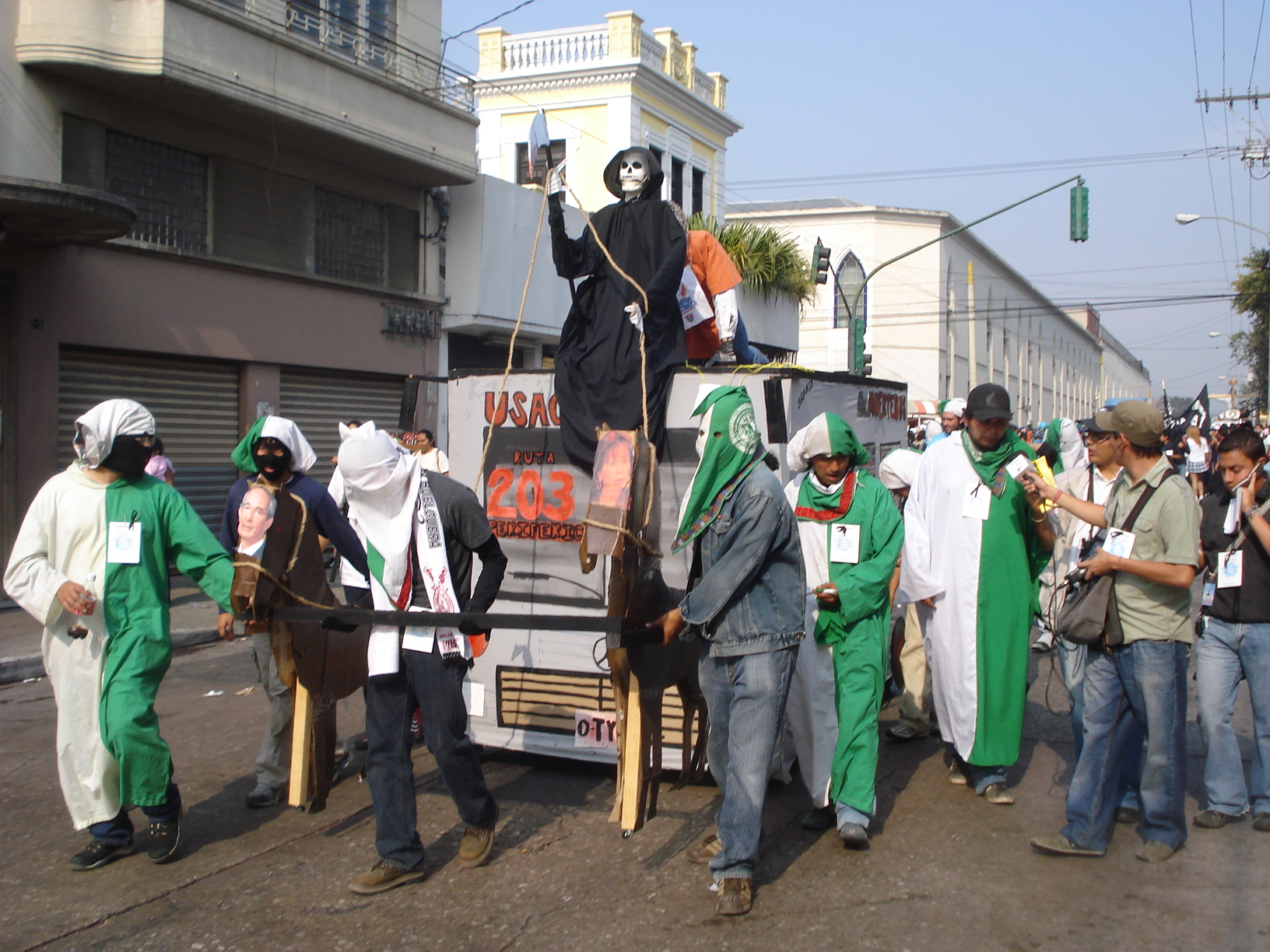 Huelga de Dolores. Guatemala City, 2009.